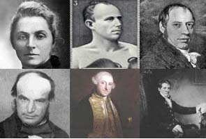 Collage of images representing the Cornish people. Up (from left to right): Emily Hobhouse, Bob Fitzsimmons, Richard Trevithick. Down: John Couch Adams, Edward Boscawen, Humphry Davy.